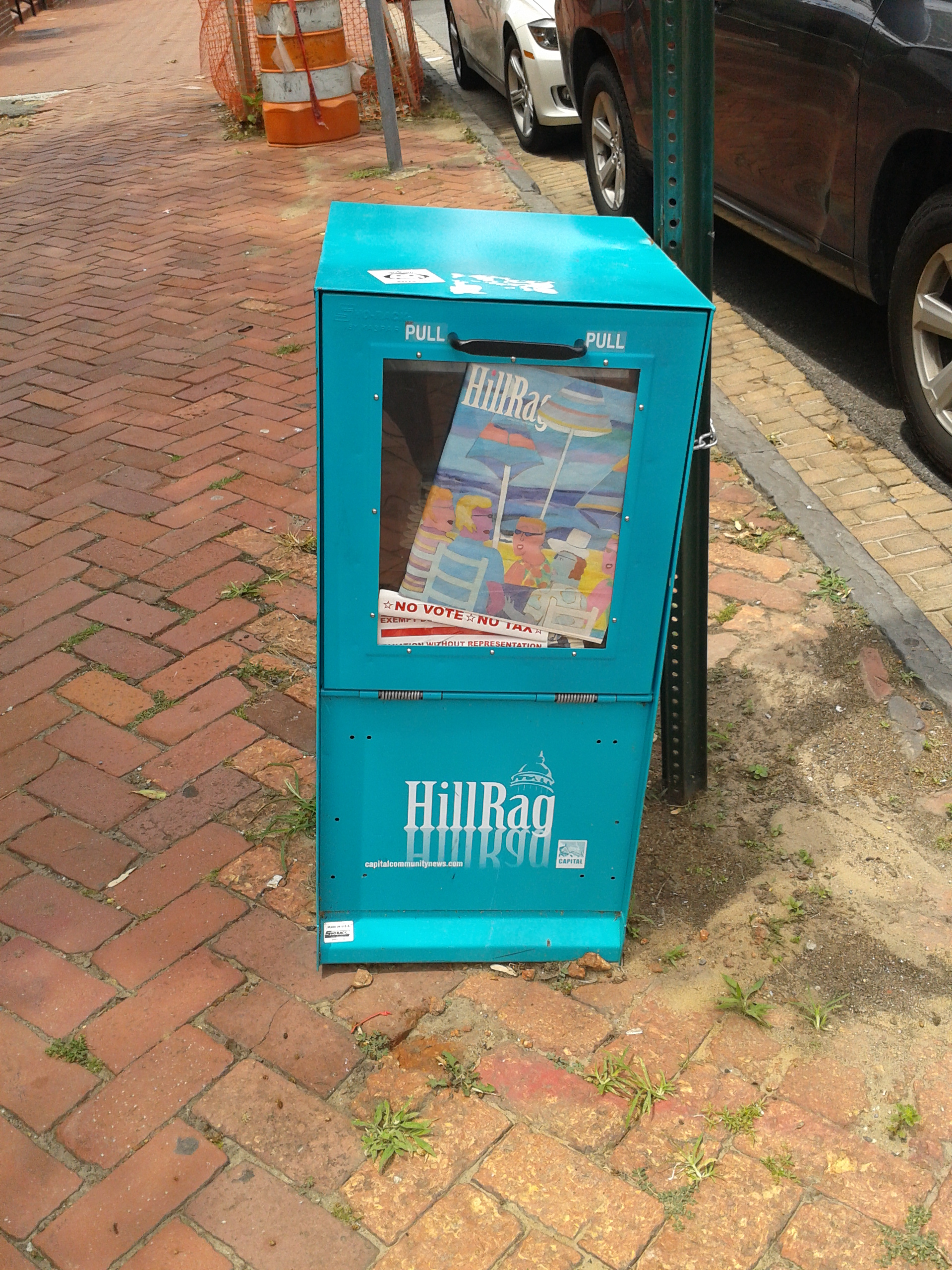 A Hill Rag dispenser on Capitol Hill